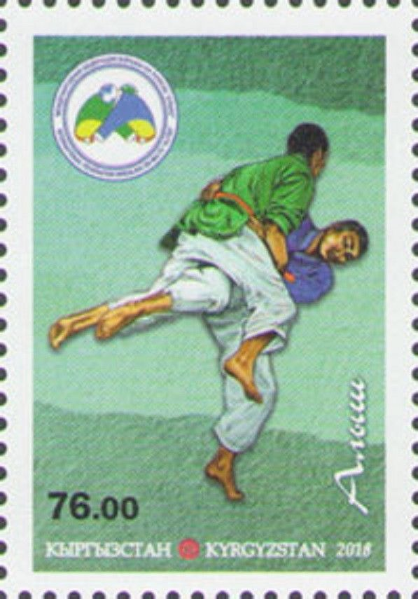 “Alysh” - Kyrgyz national belt wrestling